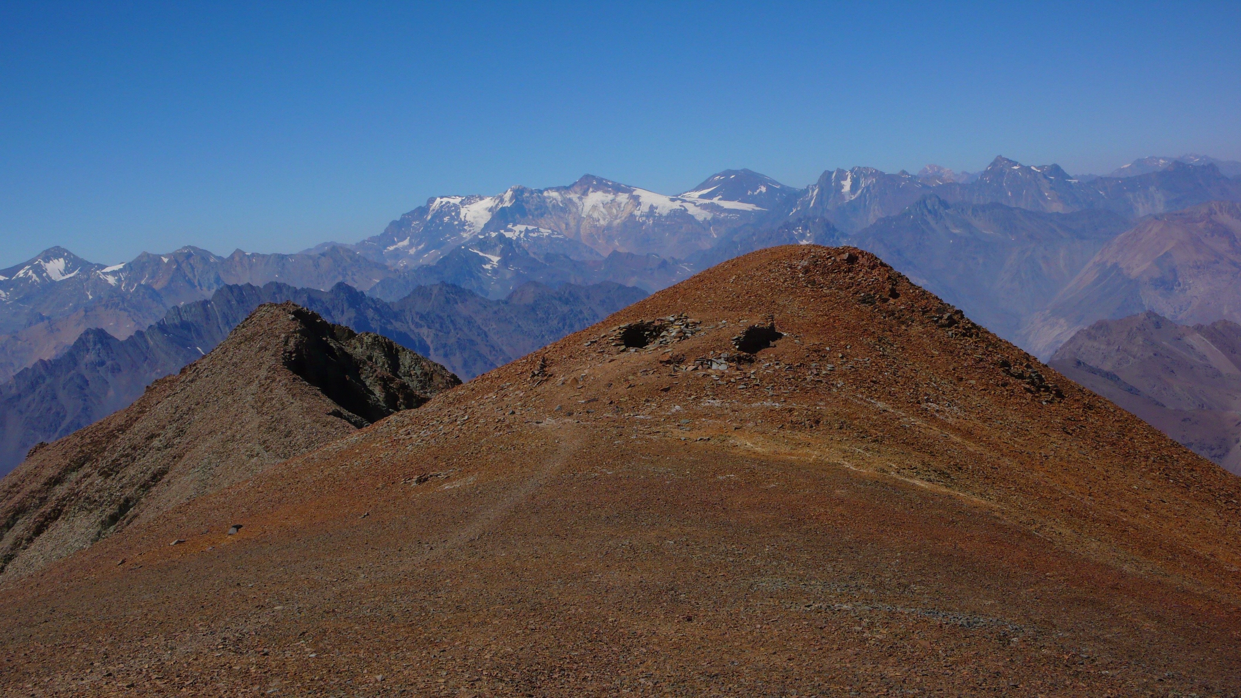 Pirca del Inca (approx. 5,100m) at the Cerro del Plomo (5,424m), looking south-south-east. February 1954 the Plomo mummy was found at this site. In the background, from left to right: Marmolejo (6,108m), San José (5,856m), Loma Larga (5,404m), Mesón Alto (5,257m). The Cerro del Plomo (5,424m) is not to be confused with the Nevado El Plomo (6,070m), which lies on the border about 20km to the north-east. (Cf. John Biggar, The Andes — A Guide for Climbers, ISBN 0-9536087-2-7, p. 217; Hermann Kiendler, Die Anden — Vom Chimborazo zum Marmolejo — Alle 6000er auf einen Blick, ISBN 978-3-936740-36-3, pp. 349–352.)